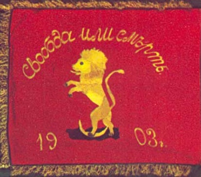 The banner of the insurgents of the Preobrazhenie uprising in the Central Rhodopes area, 1903.